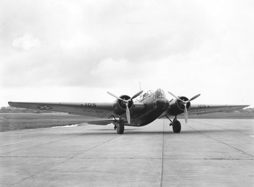 Description: Martin B-10B airplane of the 44th Reconnaissance Squadron.